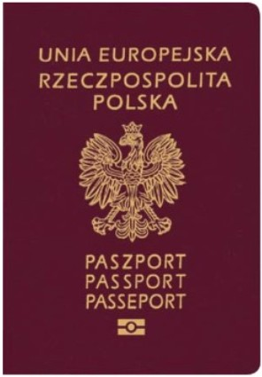 Polish. Poland. Polish passport. Polish passport - newest design.